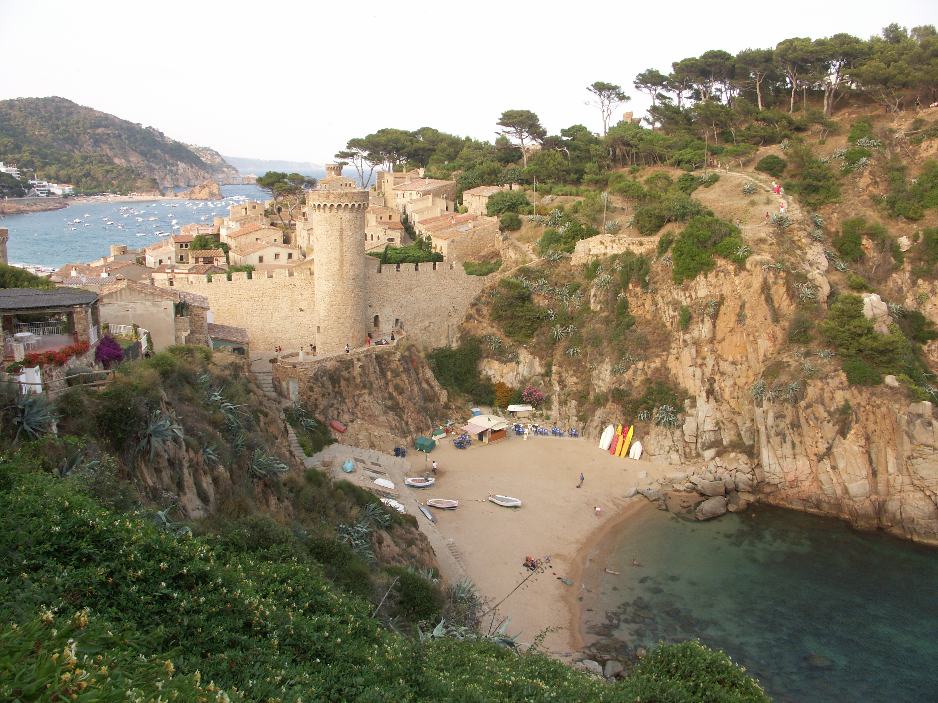 Tossa de Mar. Small Beach at the walls of the Old Town